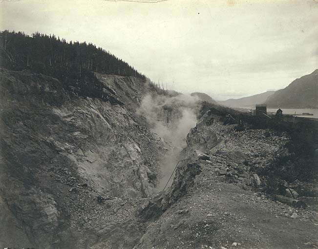 On verso of image: "Treadwell quartz ledge or Glory Hole" Nome Gold Rush. Subjects (LCTGM): Gold mining--Alaska--Treadwell Subjects (LCSH): Treadwell Mining Company (Treadwell, Alaska); Alaska--Gold discoveries